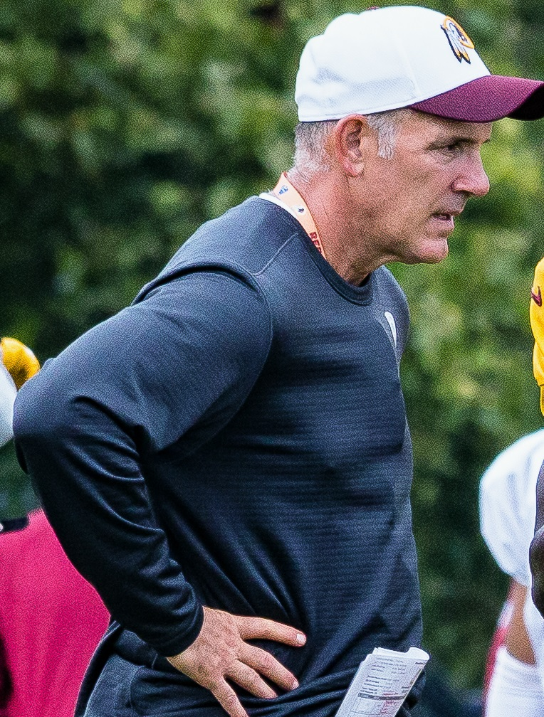 Matt Cavanaugh Redskins quarterback coach in 2015.